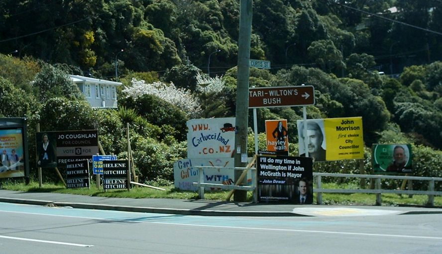 Photo of some signs advertising candidates in the New Zealand local elections of 2007.